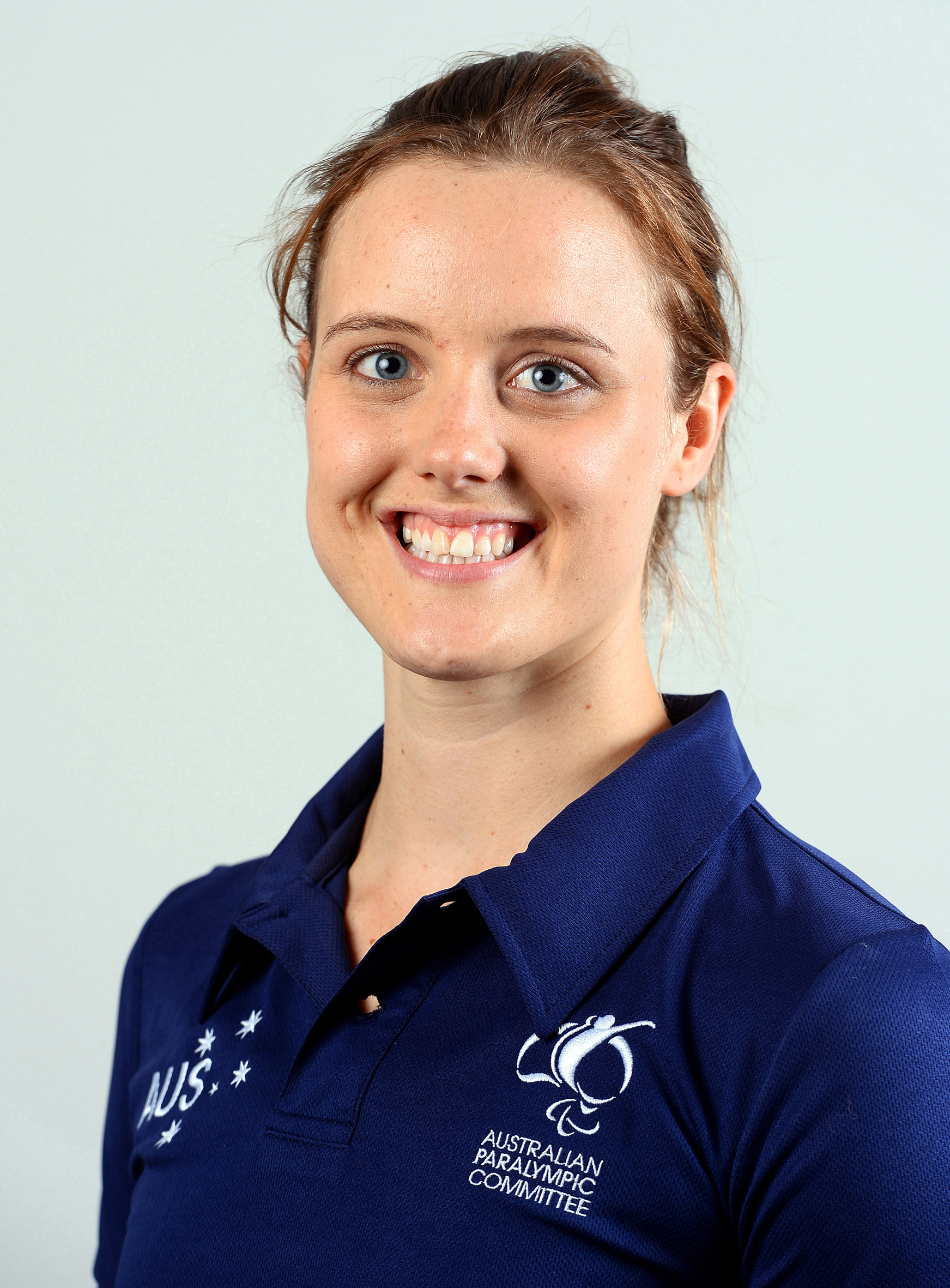 Portrait photograph of Ellie Cole taken at team processing session for shadow members of 2016 Australian Paralympic team